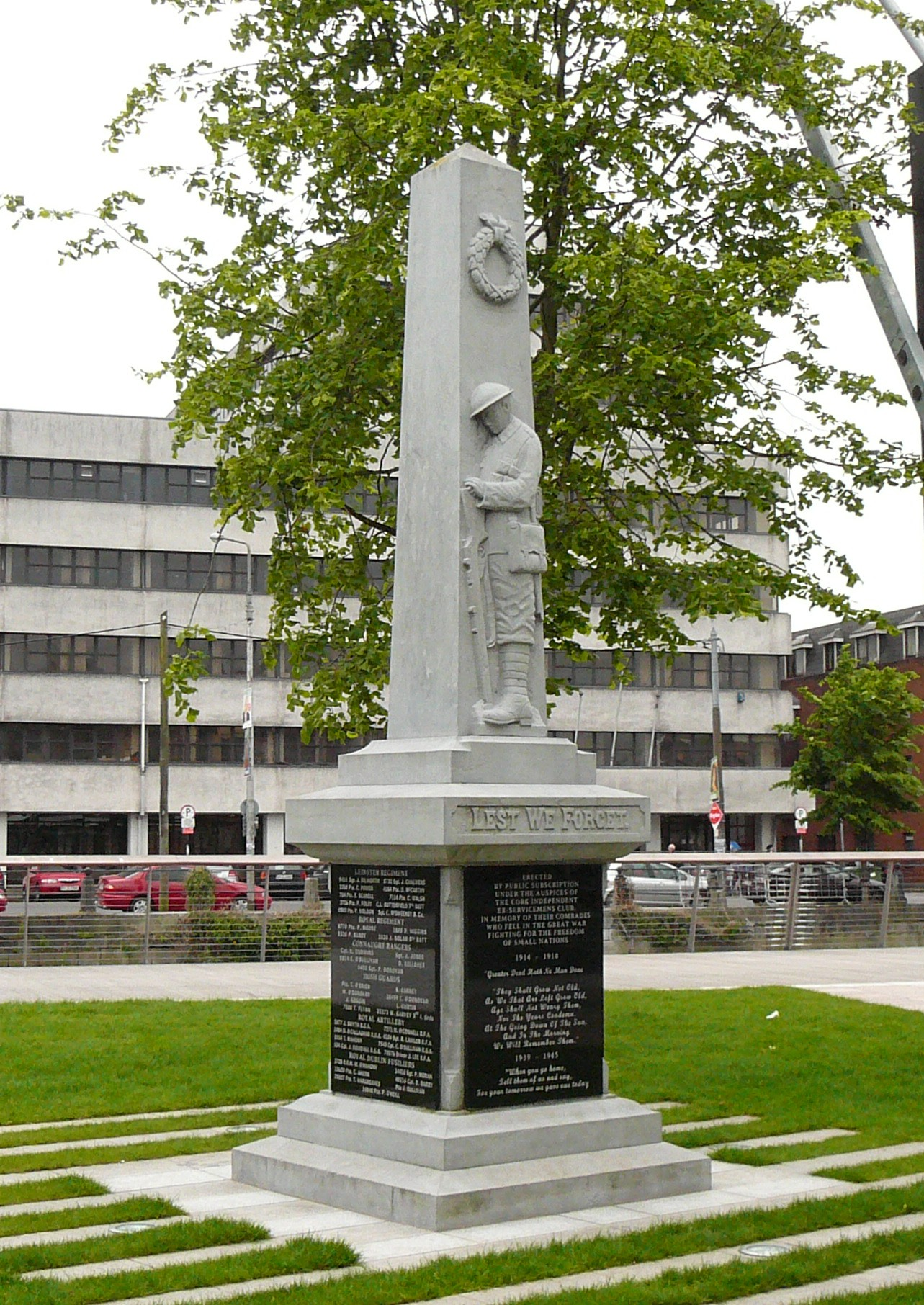 Image if the 'Lest we Forget' War Memorial on the Grand Parade in Cork dedicated to the fallen County Cork servicemen who gave thair lives for freedom in World War I and World War II, which was unveiled in 1925 and restored in 2008.See text of the 'Lest We Forget' Plaque at the base of the memorial.